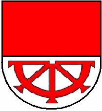 Coat of arms of Müllheim, Canton of Thurgau, SwitzerlandEsperanto: Blazono de Müllheim, Kantono Turgovio, Svislando